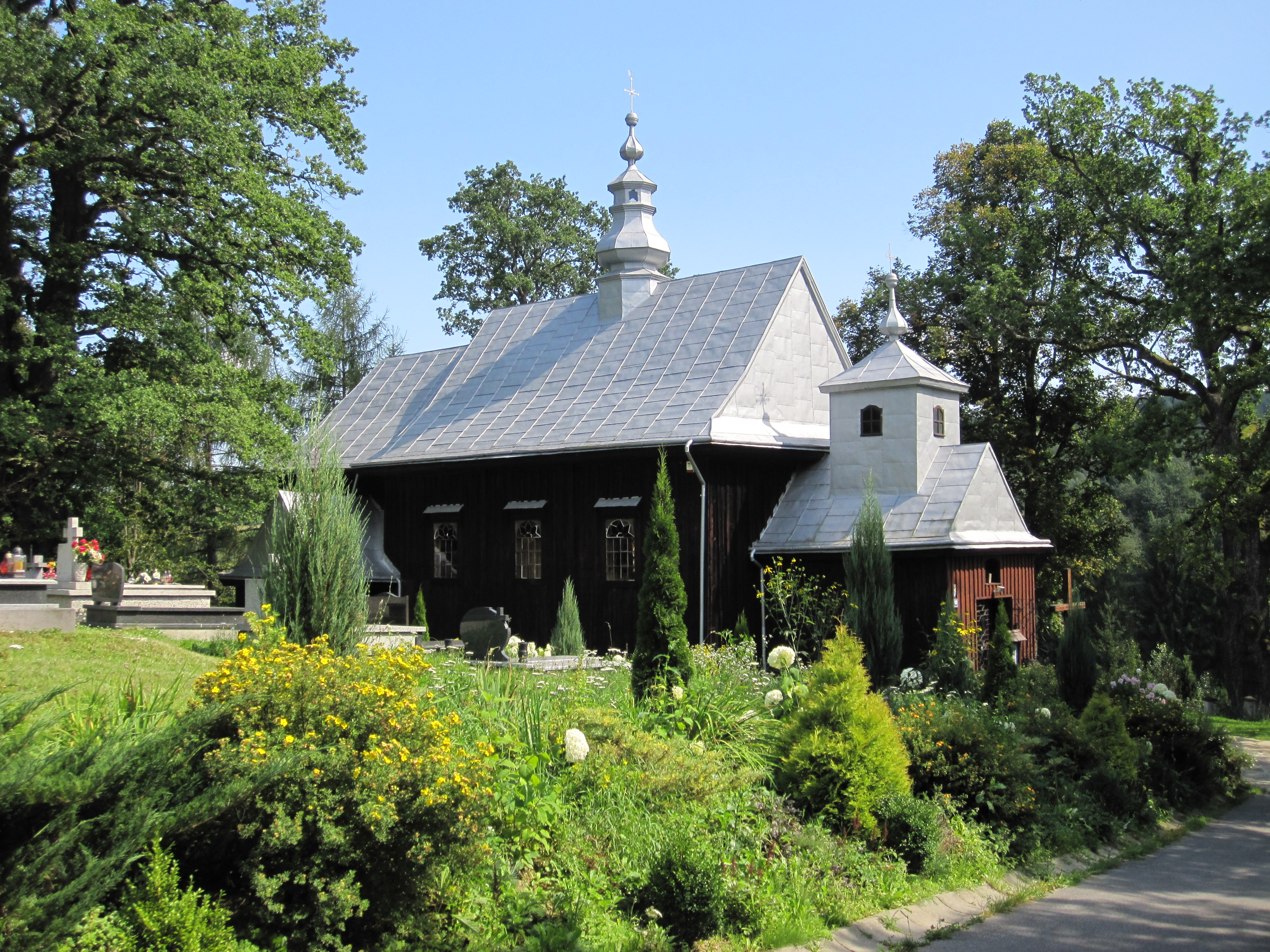 Greek Catholic Church in Górzanka village